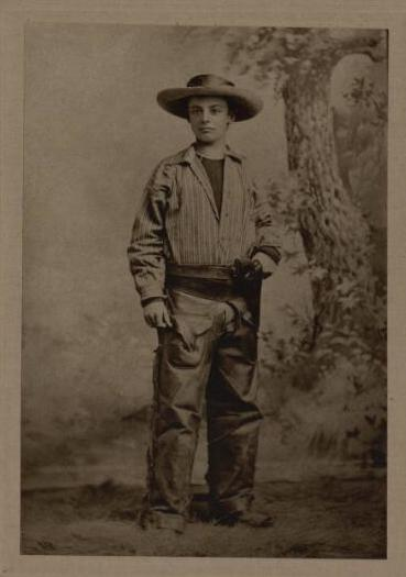 A portrait from the Welsh Portrait Collection at the National Library of Wales. Depicted person: Arthur Owen Vaughan – Welsh writer